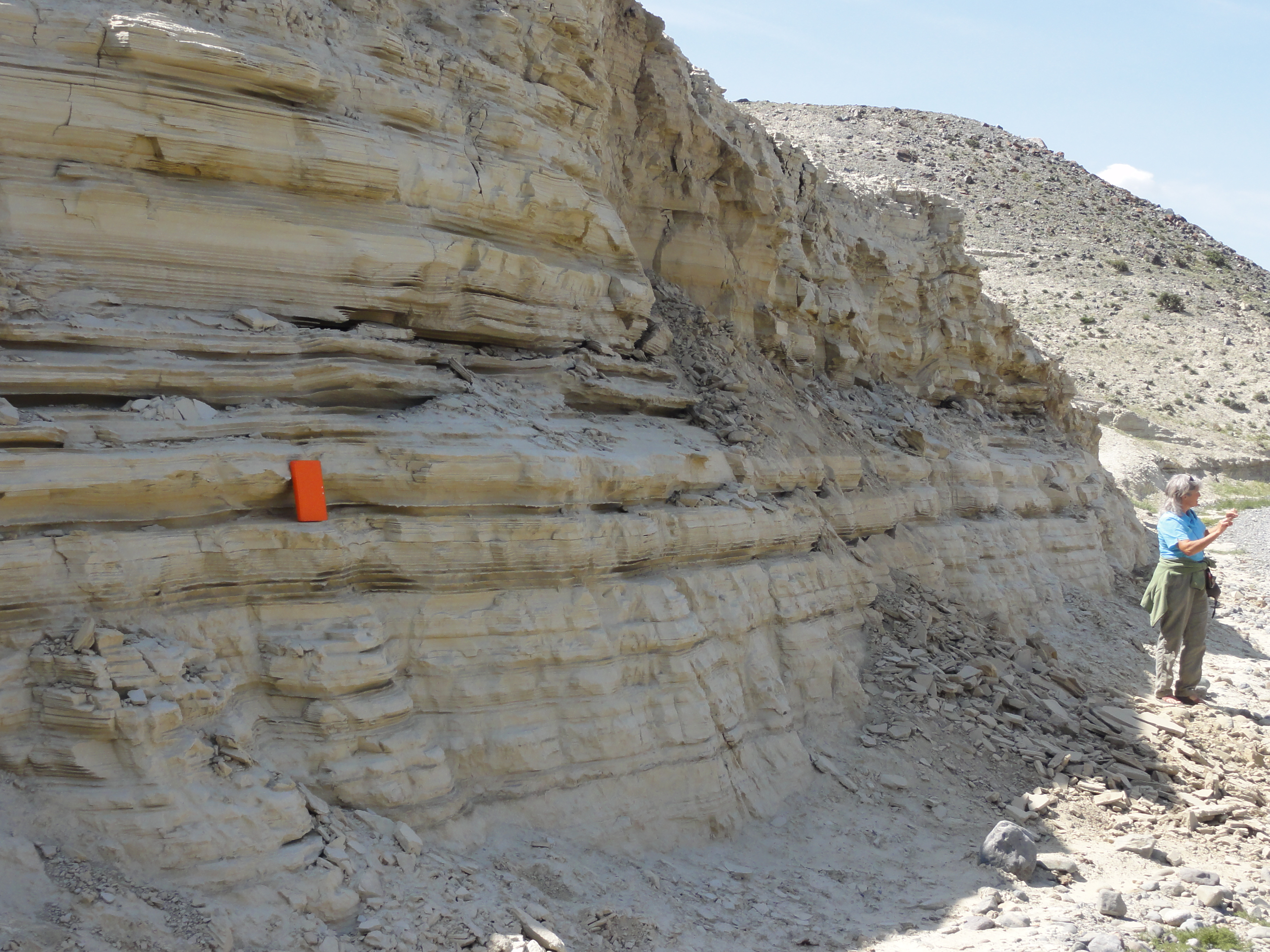 Lake deposits in Chuya Basin, showing possible varves (annual layers of different grain size). Related to the Altay flood